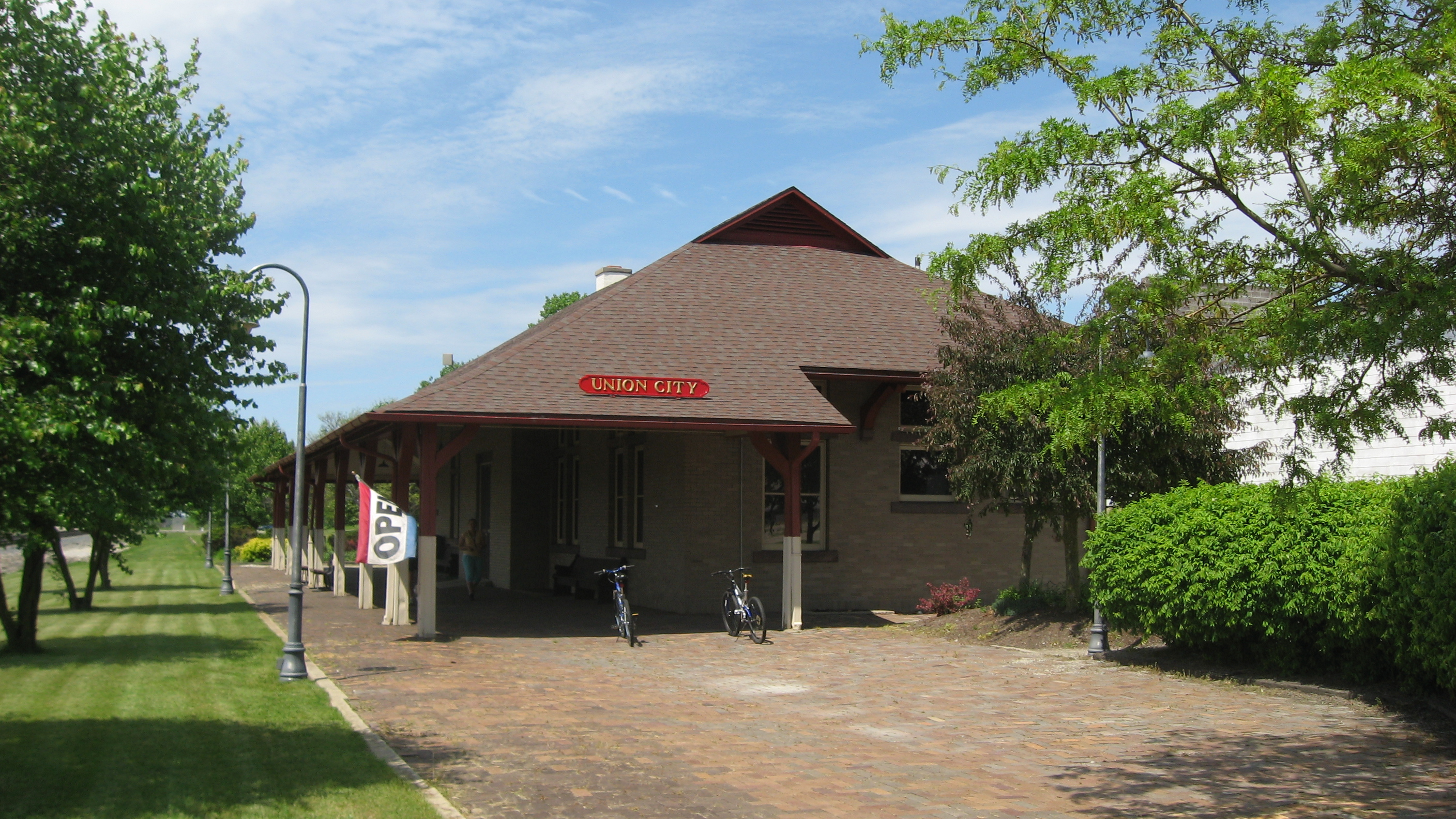 Front of the Union City Passenger Depot, located on the western side of Howard Street in Union City, Indiana, United States. Built in 1913 and since converted to an art museum, it is listed on the National Register of Historic Places.